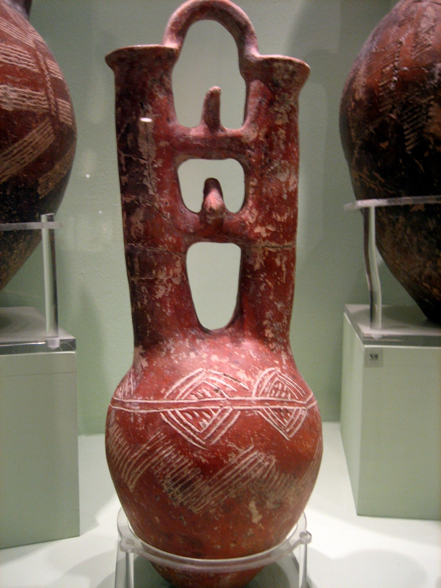 Red polished Sourth Coast ware, Early Cypriot I period(2500-2300BC)